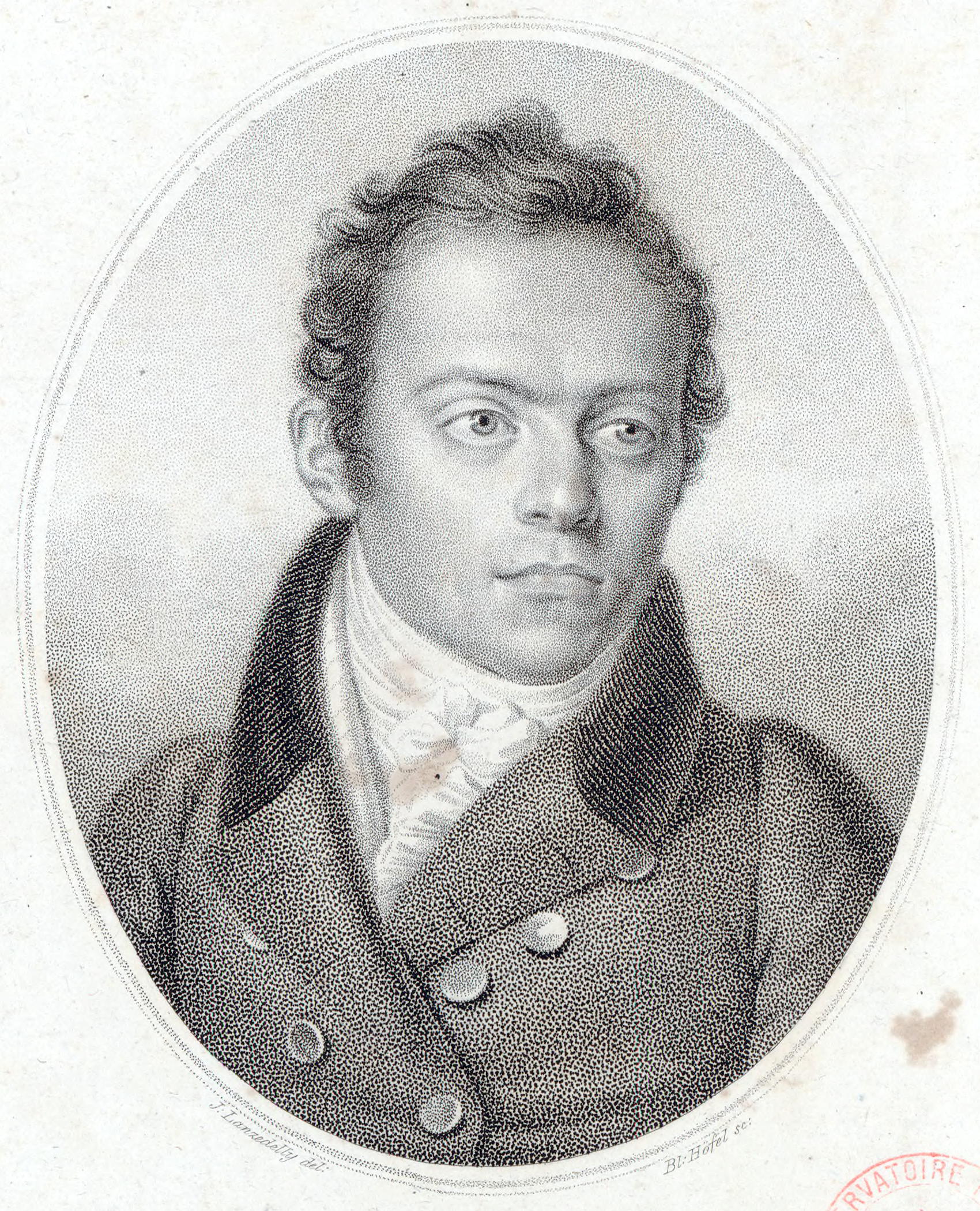 Depicted person: Carl Czerny